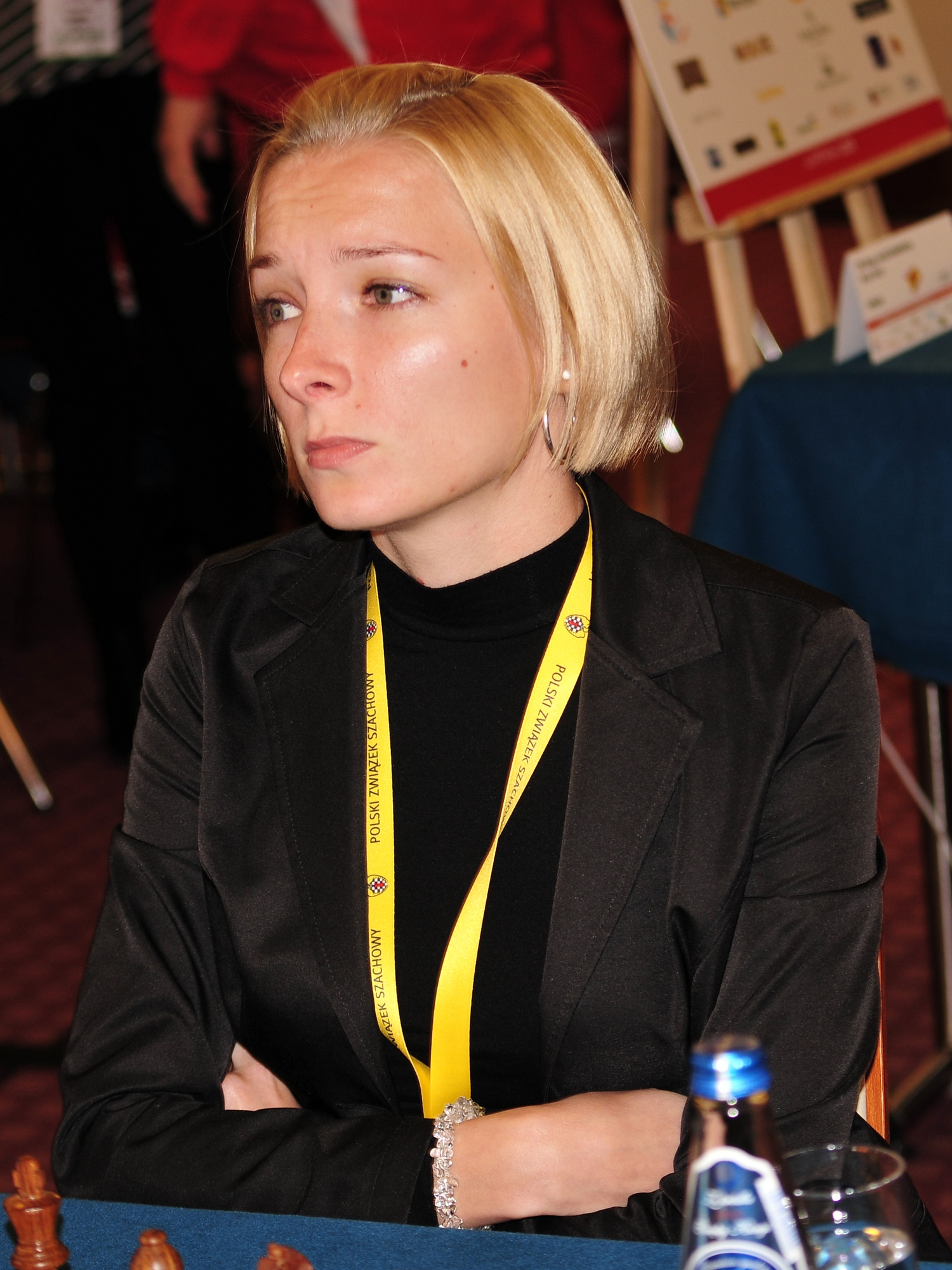 WIM Joanna Worek, European Chess Team Championship Warsaw 2013